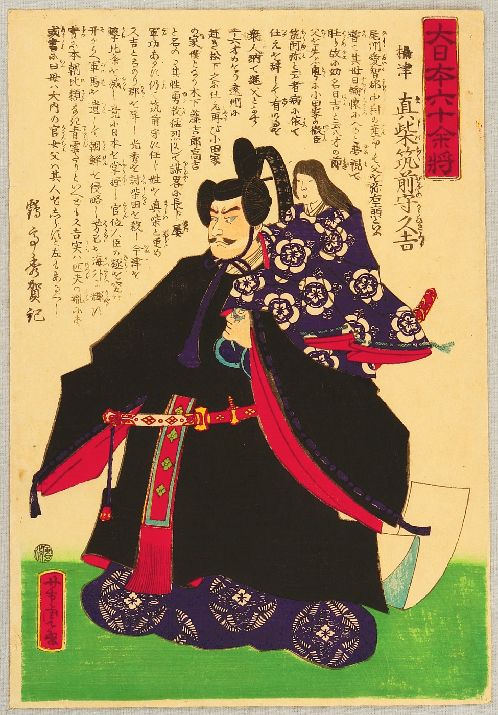 Settsu, Mashiba Chikuzennokami Hisayoshi, from the series Sixty-odd Famous Generals of Japan, woodblock print